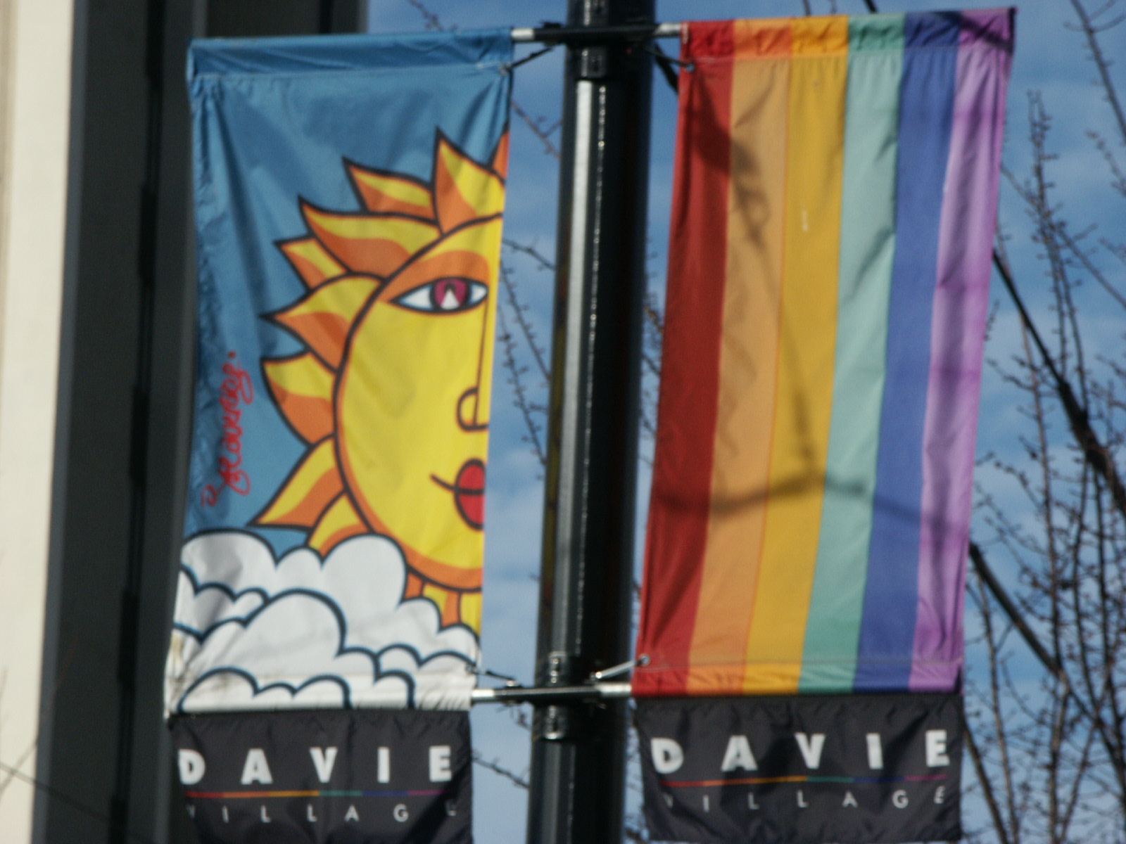 Rainbow flag on a lamp post in Davie st., Vancouver, Canada